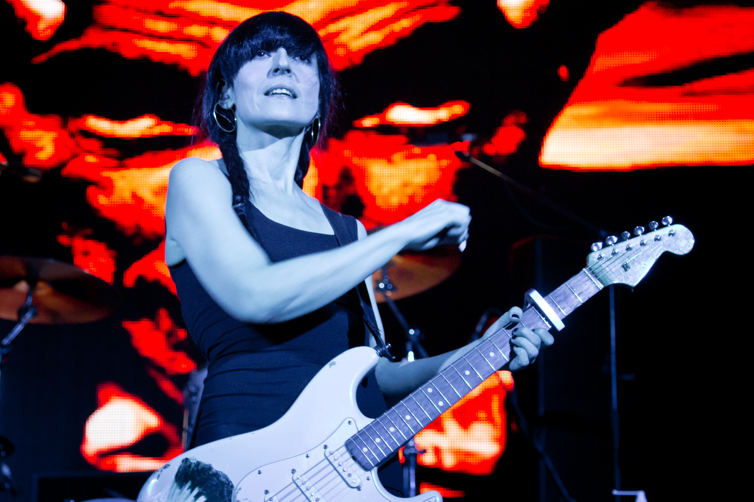 Spanish band Dover in 2014 during their Dover came to me tour.